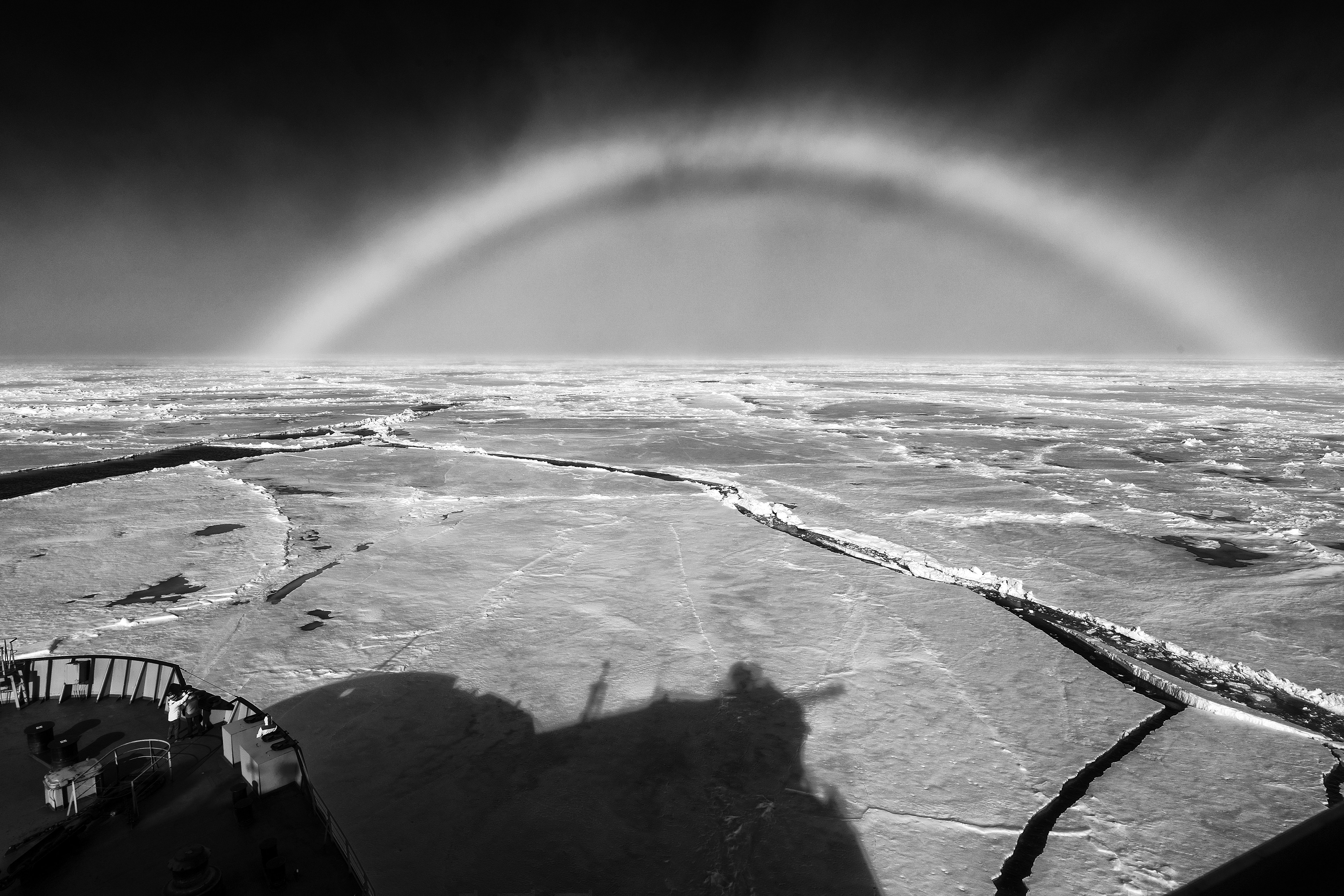 NORTH POLE North Pole Keep